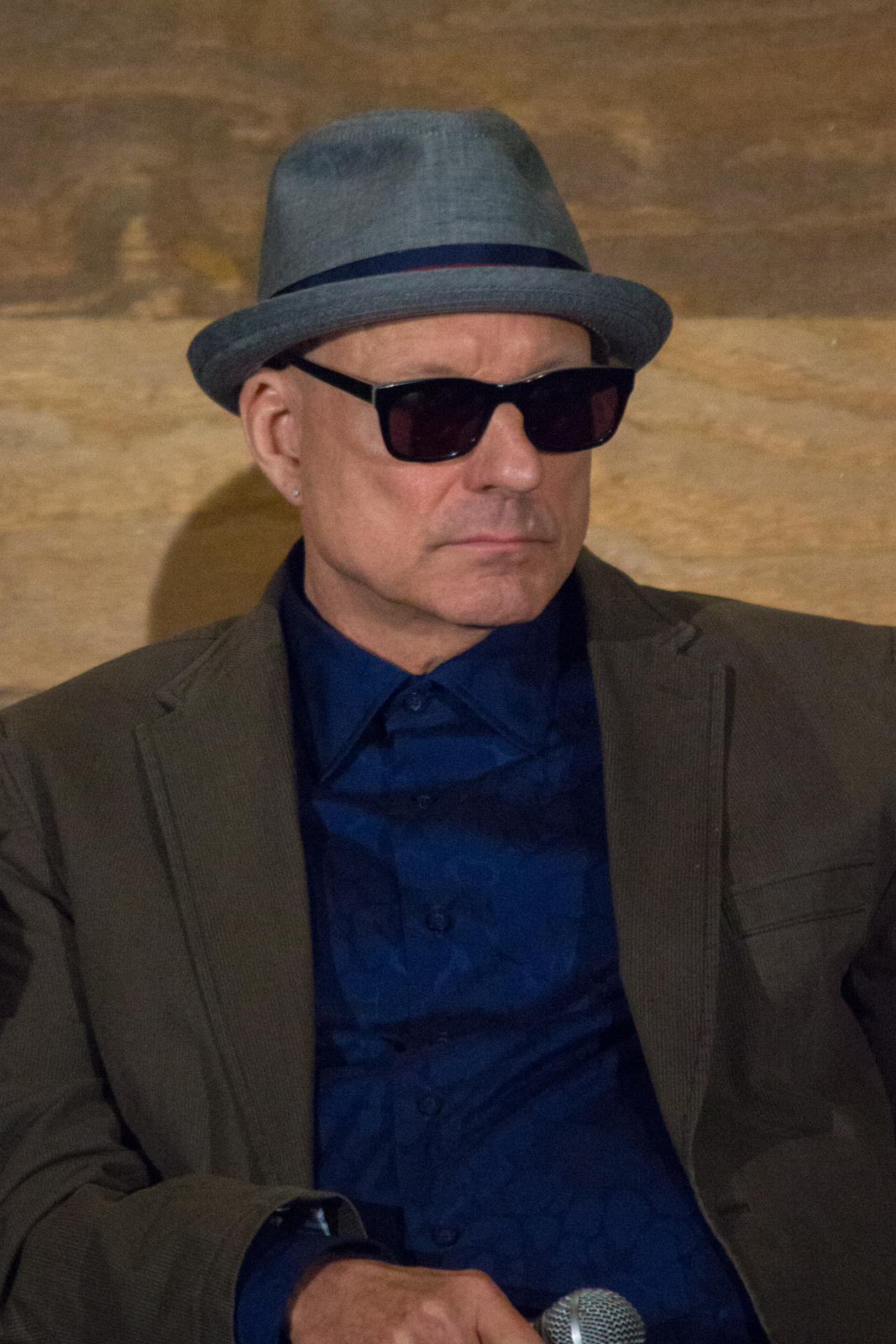 Charles Eglee at the ATX TV Festival 2014 for the TV show Hemlock Grove